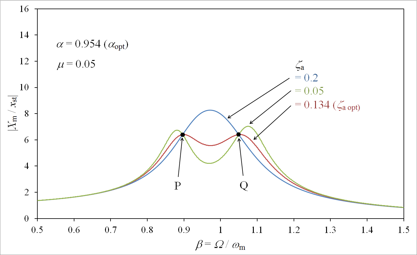 a result of fixed-points theory of dynamic vibration absorber